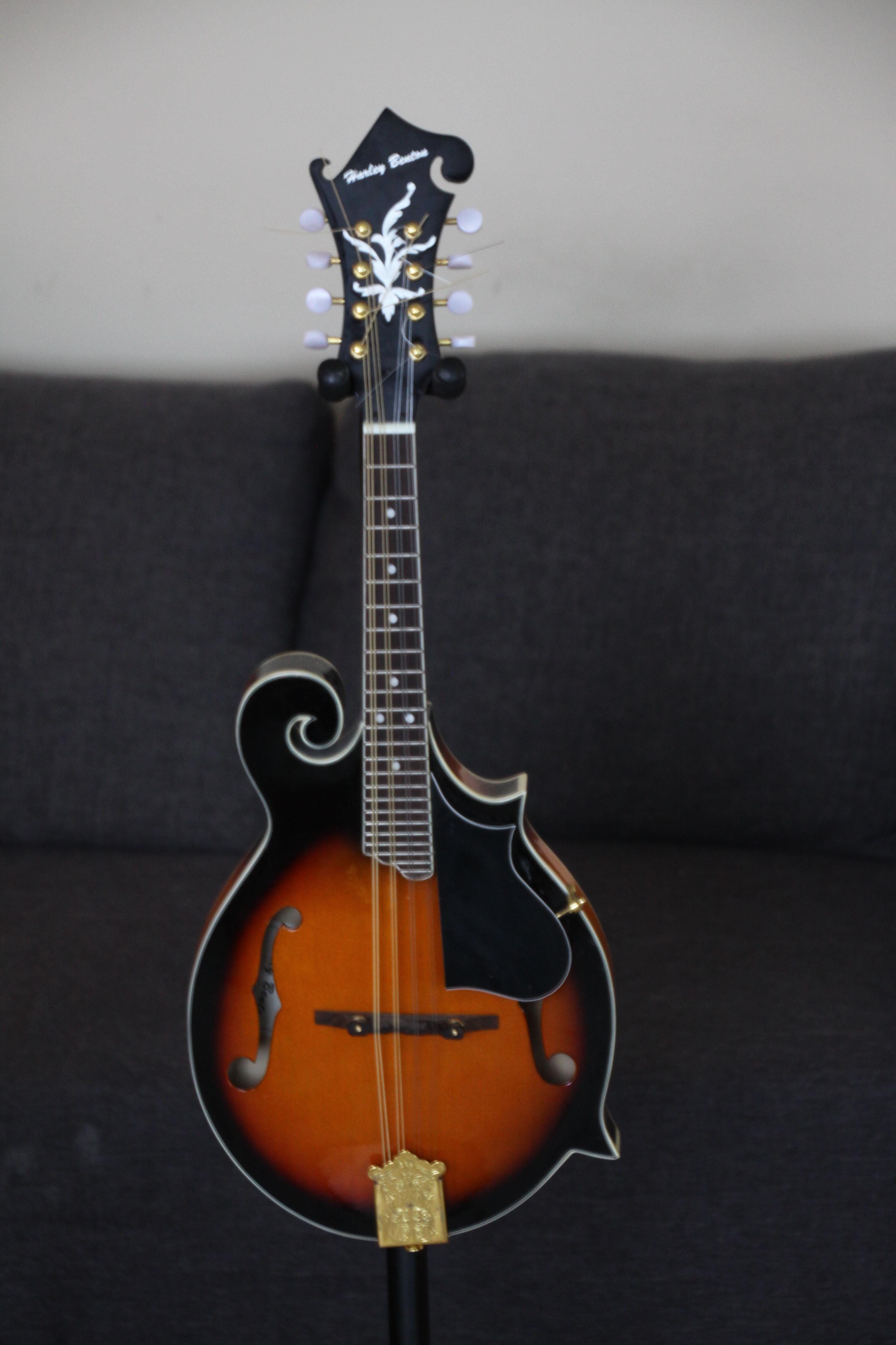 Mandolin